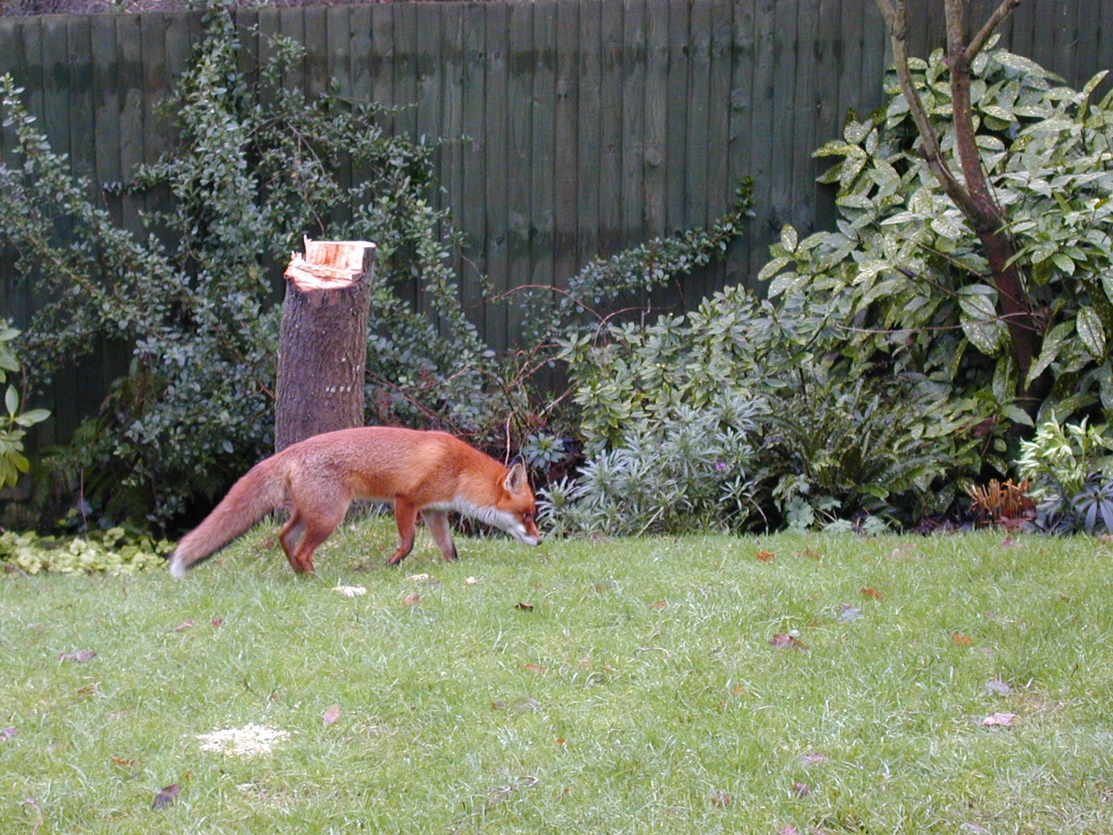 An urban fox in a garden in Birmingham, England.